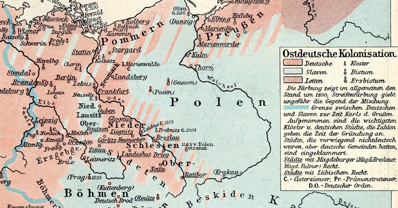 A map which shows the presence of German people in areas of modern-day Poland and Eastern Europe. Note that "Lettern", meaning Latvian, is used to incorrectly refer to speakers of Baltic languages.